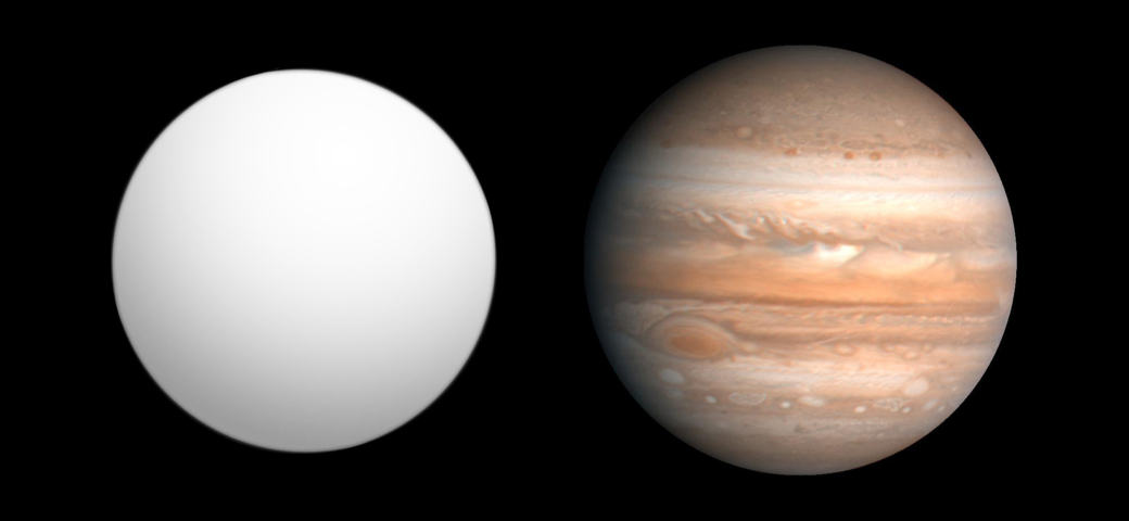 Comparison of best-fit size of the exoplanet Lupus-TR-3 b with the Solar System planet Jupiter, as reported in the Extrasolar Planets Encyclopaedia[1] as of 2010-10-03. ↑ Extrasolar Planets Encyclopaedia (2010-09-30). Retrieved on 2010-10-03.